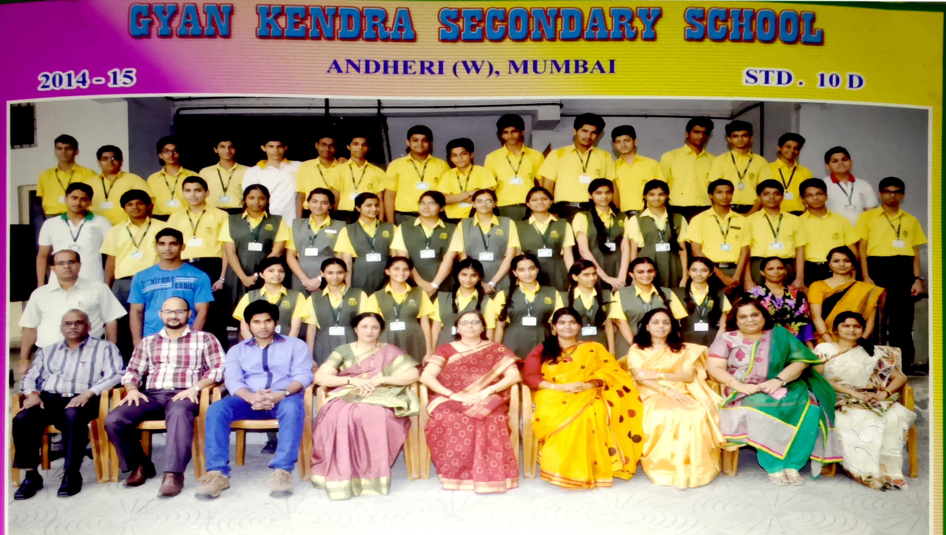 Exif_JPEG_420